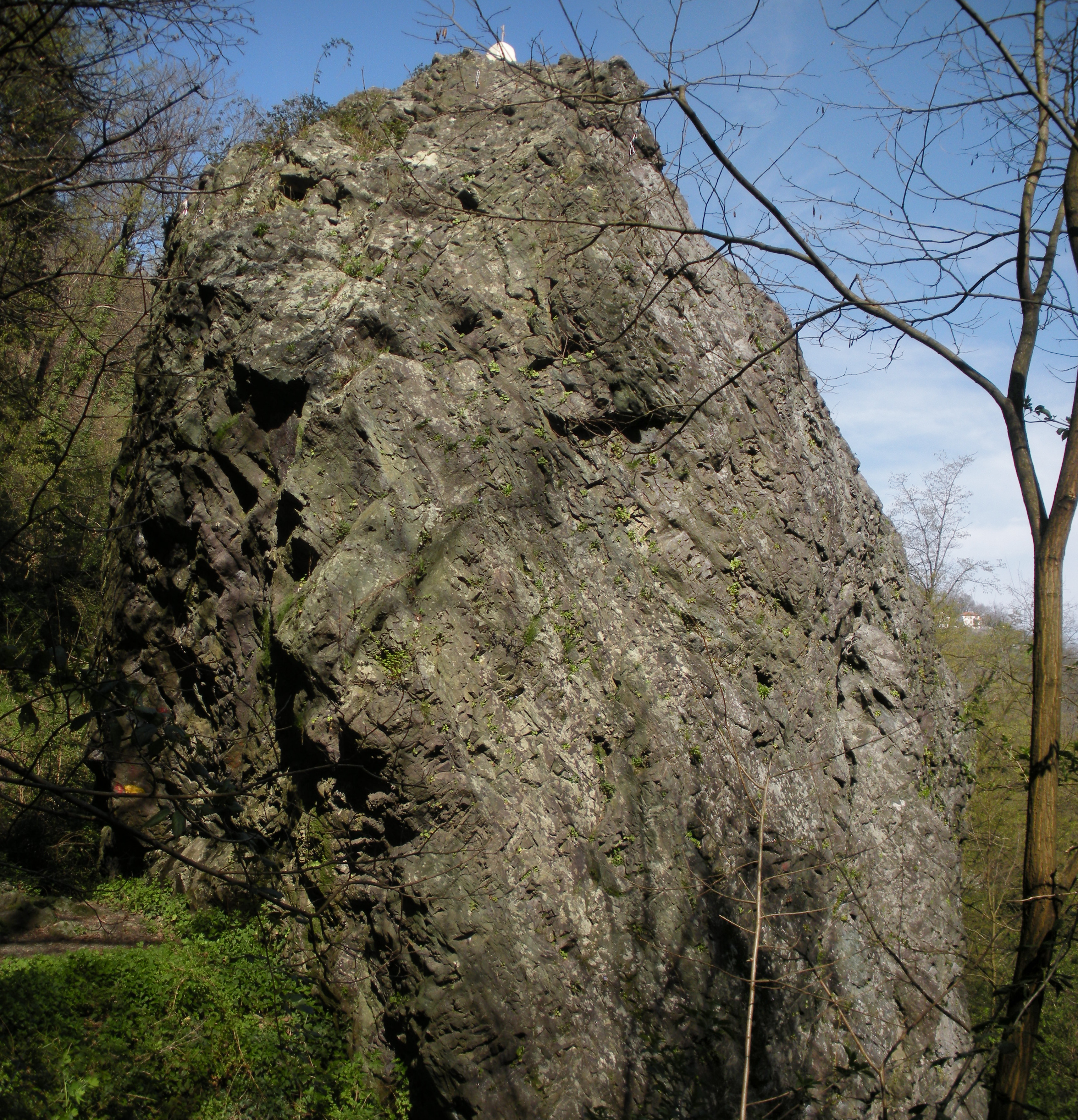 Ceranesi, province of Genoa, Italy: la "Pietra Grande" (the "Big Stone")